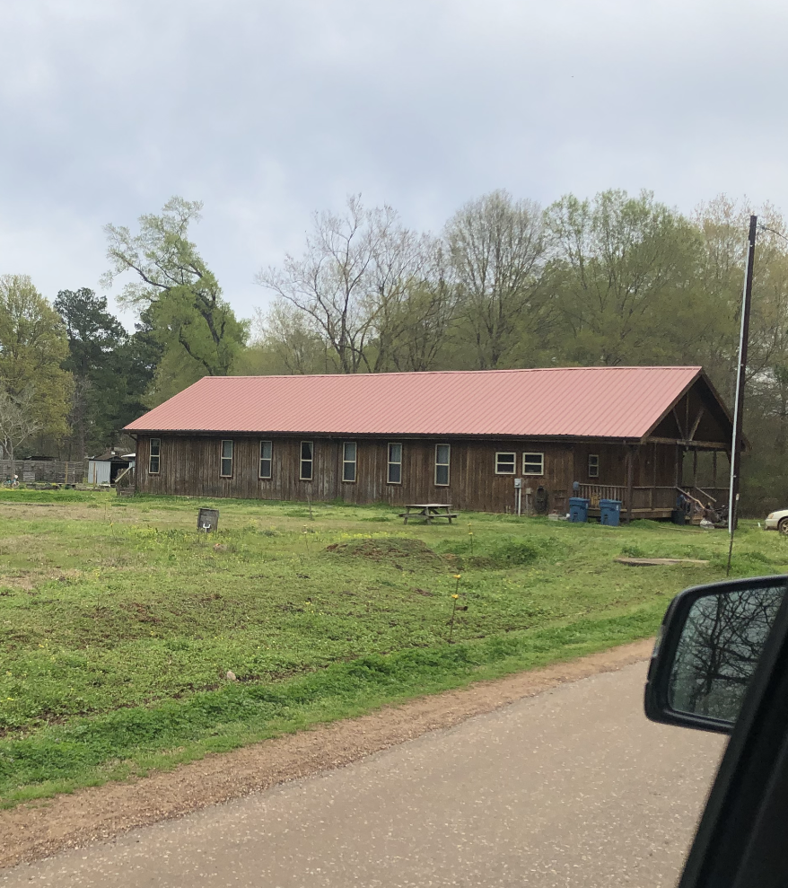 Church of Wells compound in Wells, Texas.